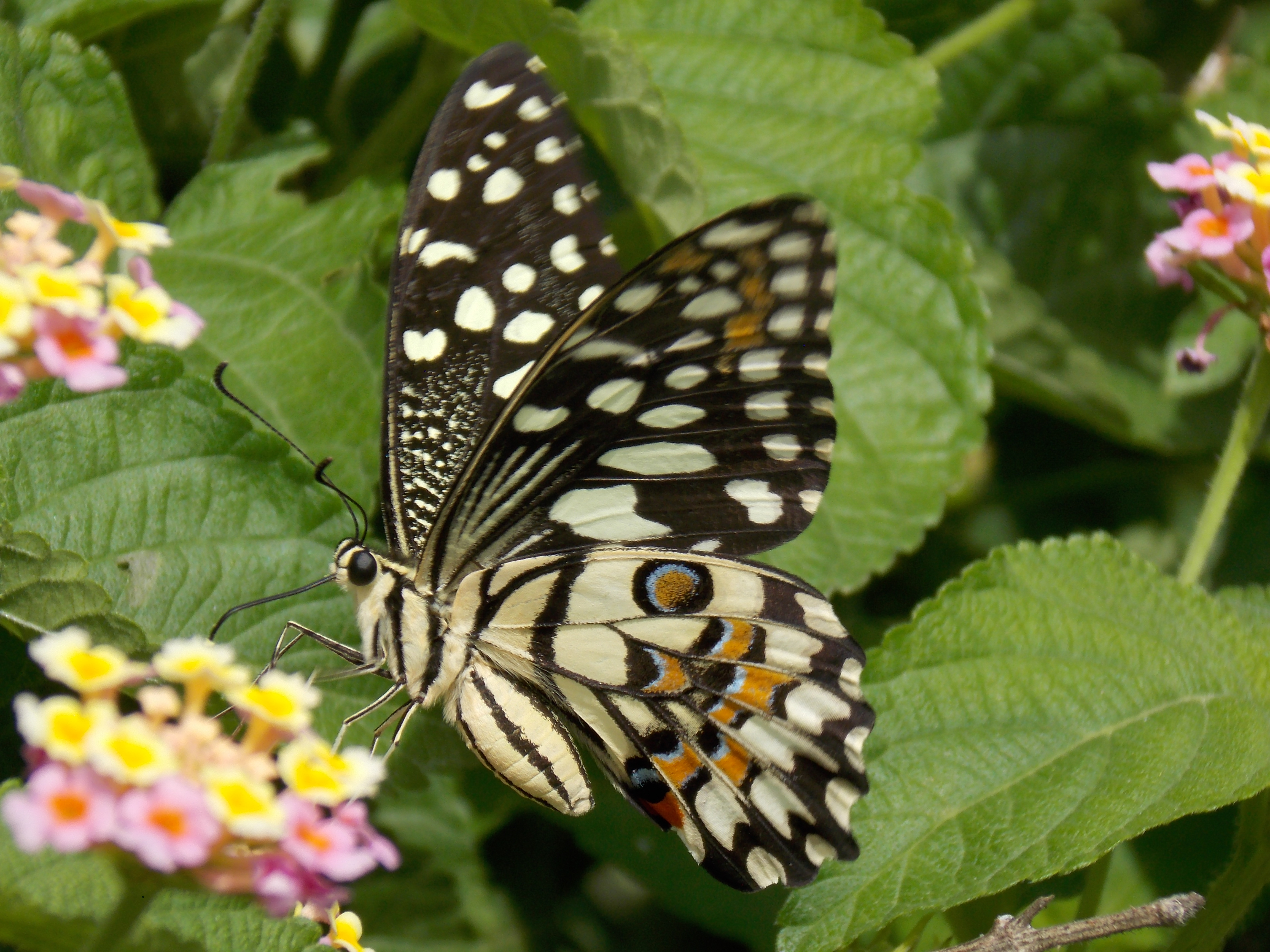 Papilio (Princeps) demoleus, Taxila, District Rawalpindi, Pakistan. September 2014